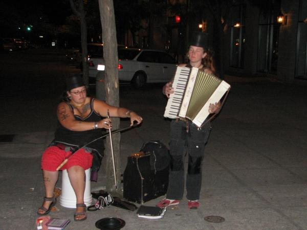 buskers with saw and accordion